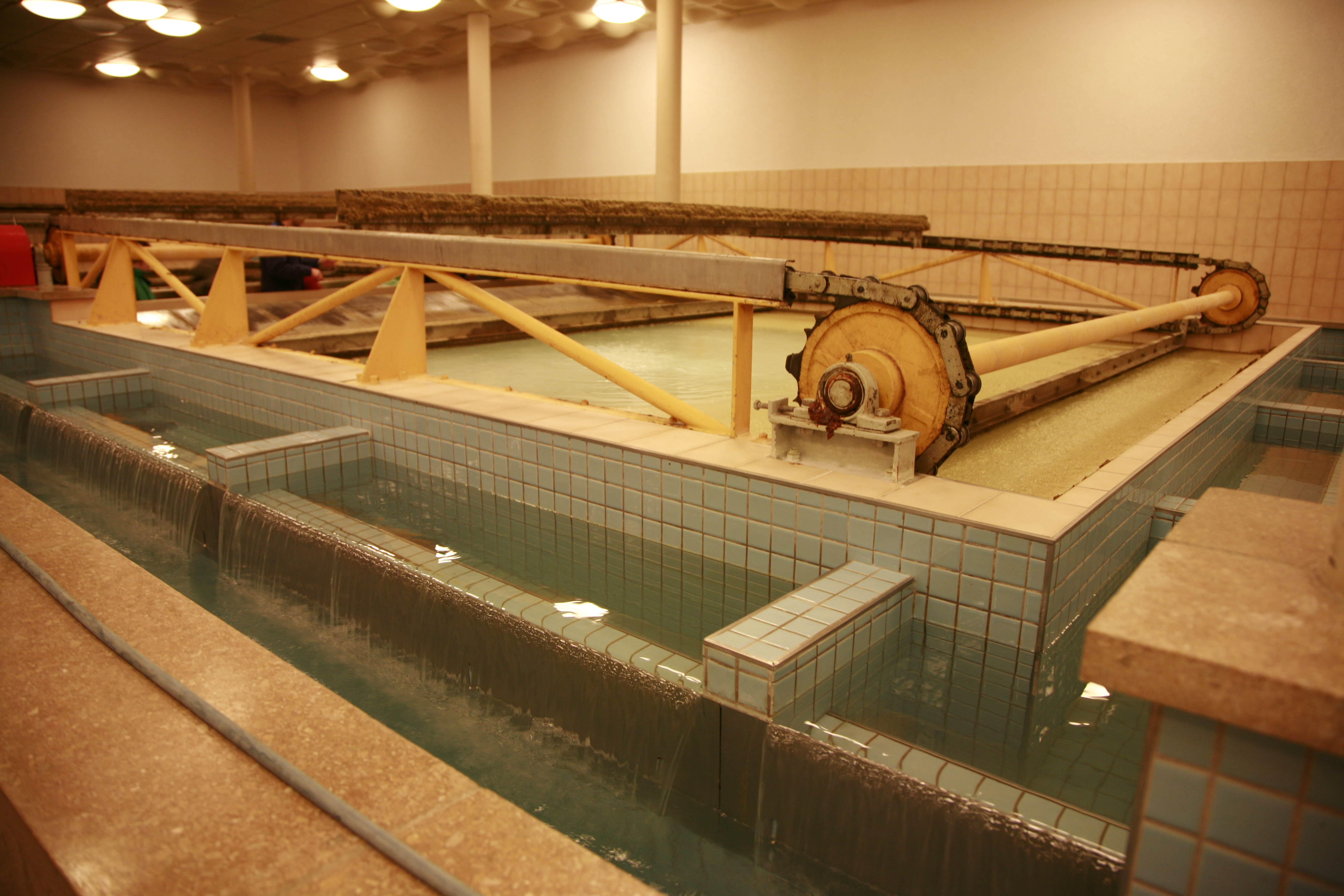 Water purification systems a Bret lake, Switzerland